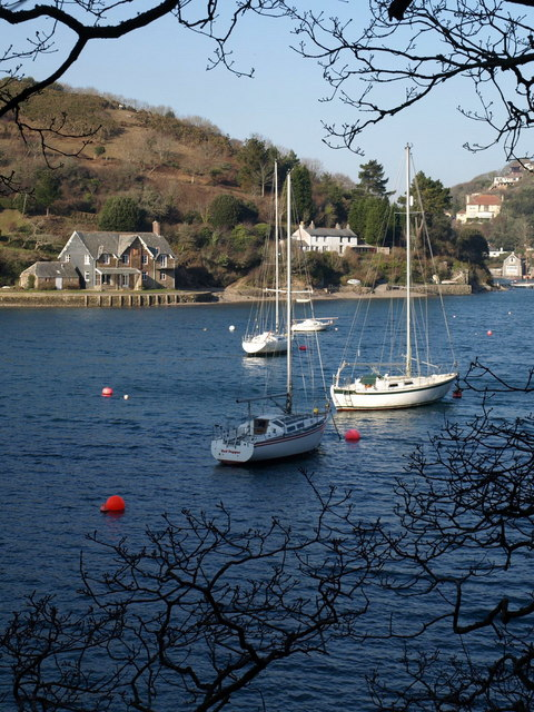 Warren Cottages across the Yealm Looking from the access woodland in Passage Wood across the Yealm to the cottages on Warren Point, past moored yachts.